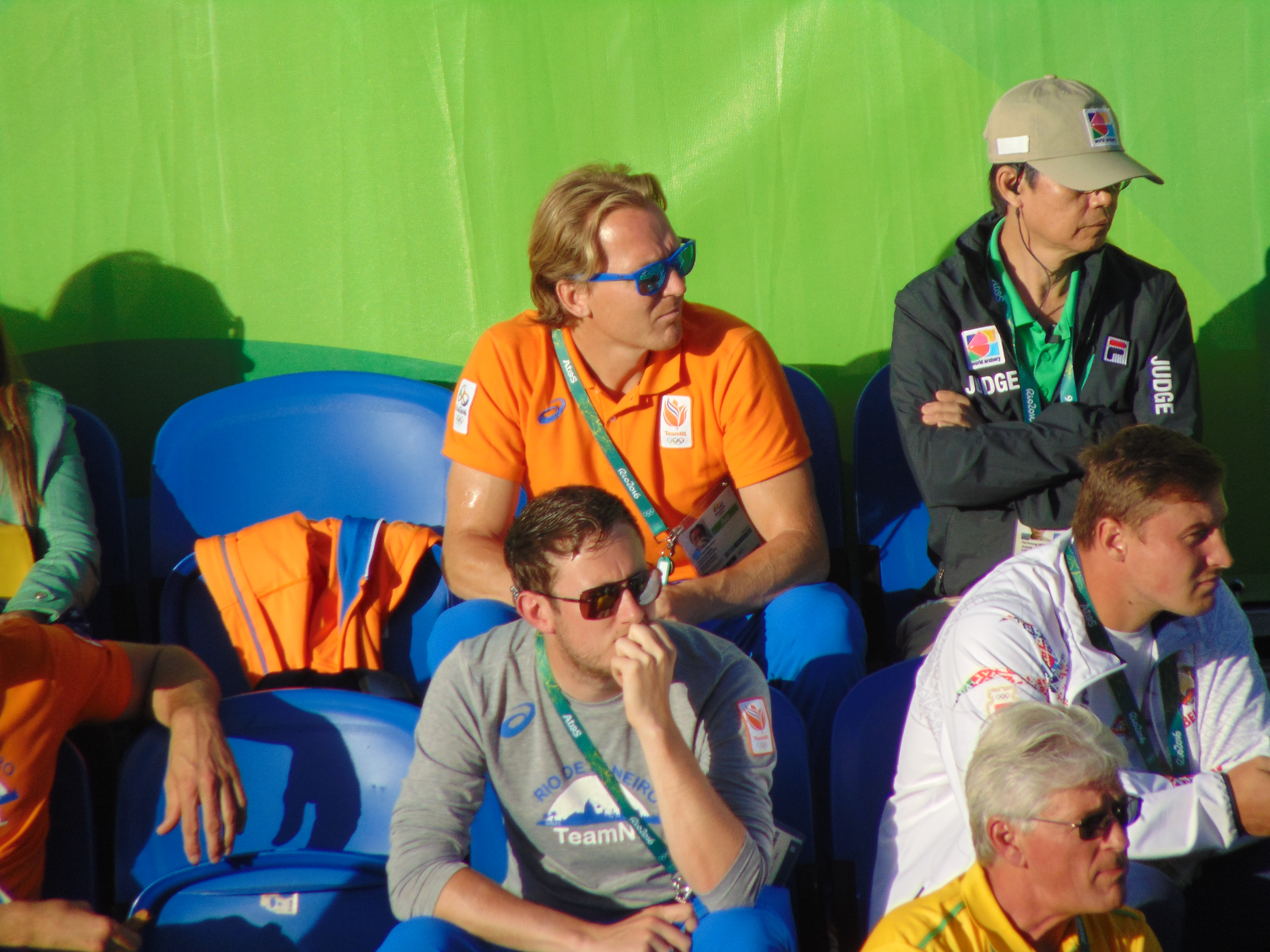 Rio 2016 - Men's archery finals